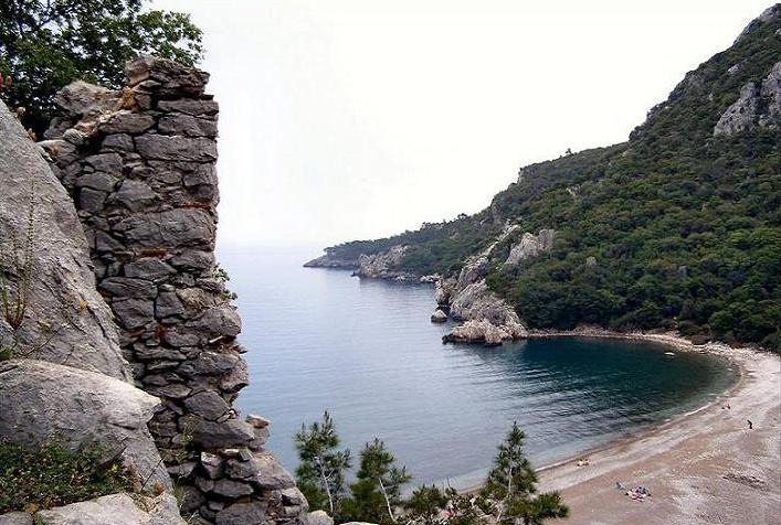 Beach near Mount Olimpos, Turkey.